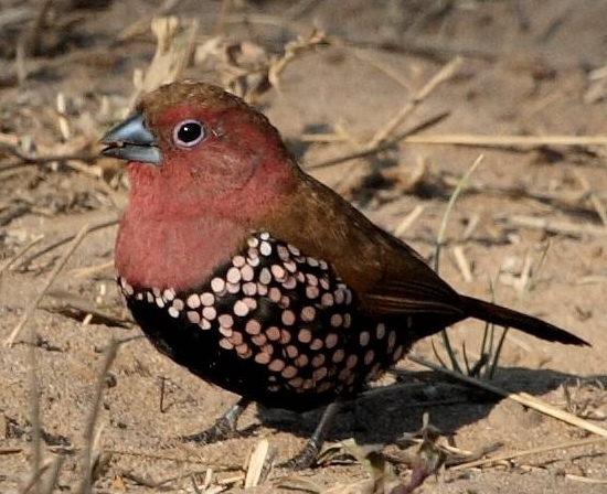 A Male Pink-throated Twinspot at Mkhuze Game Reserve, KwaZulu-Natal, South Africa.